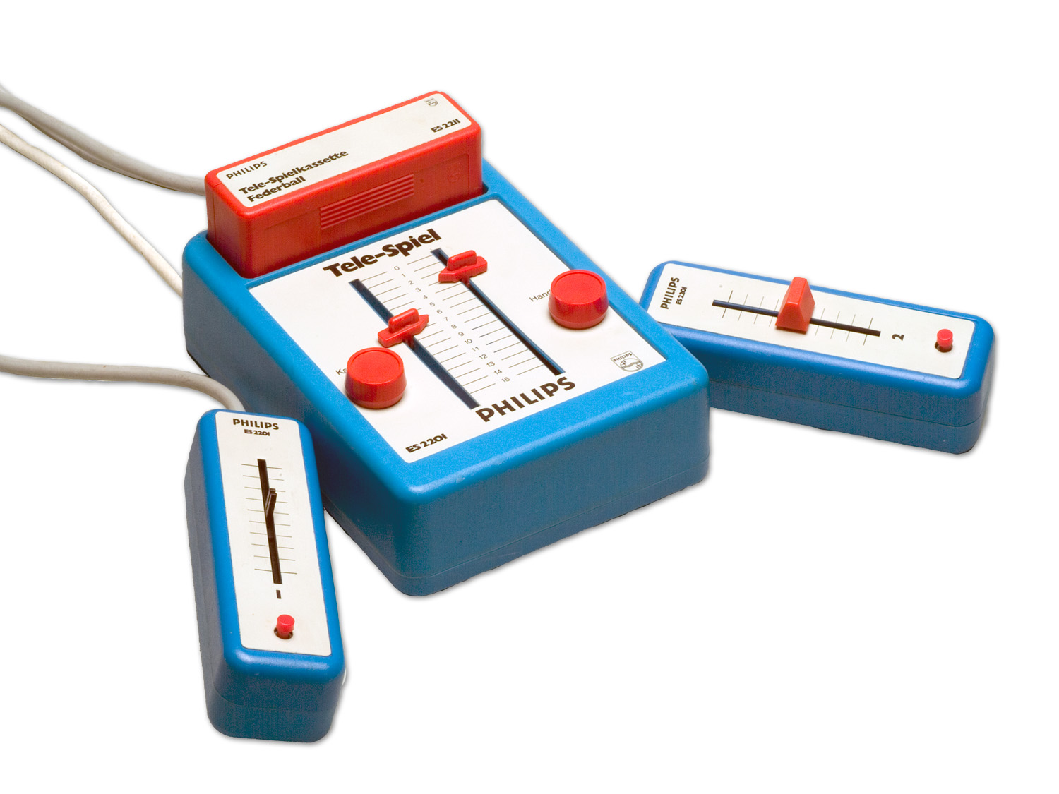 philips tele-spiel es2201. Pong console with cartridge